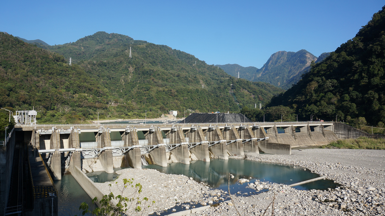 Ma'an Dam, Heping District, Taichung City, Taiwan